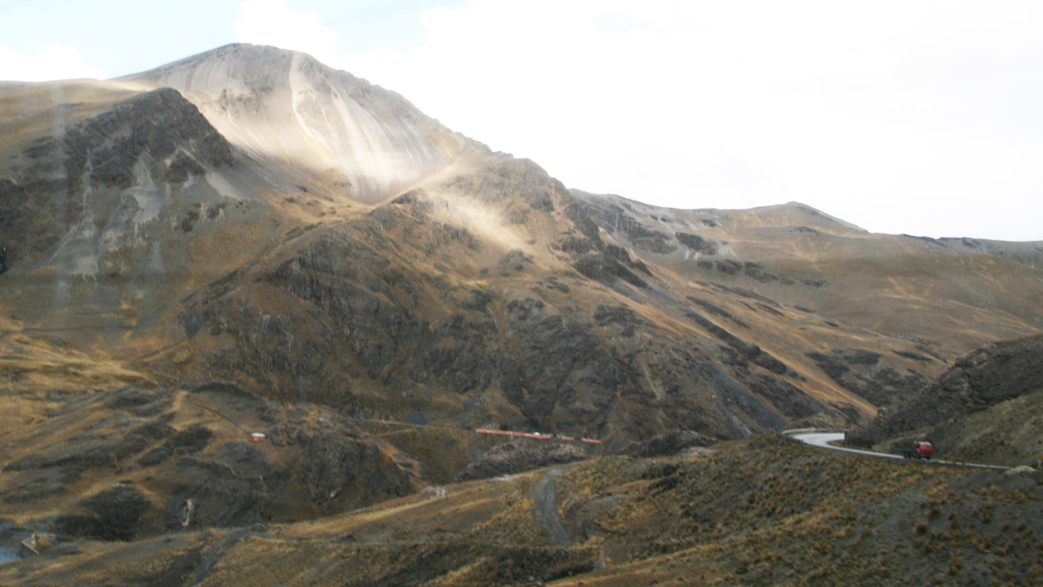 Landscape near the mountain pass "La Cumbre", few km north of La Paz, Bolivia.